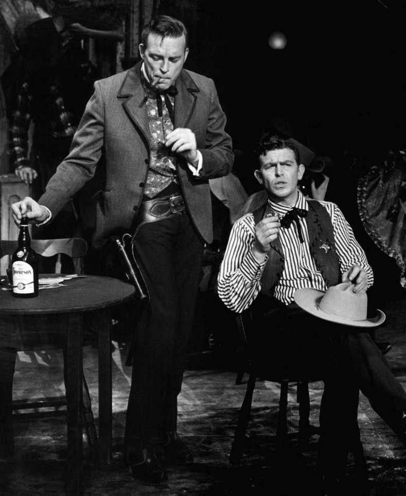 Photo of Scott Brady as Kent and Andy Griffith as Destry from the Broadway musical Destry Rides Again.